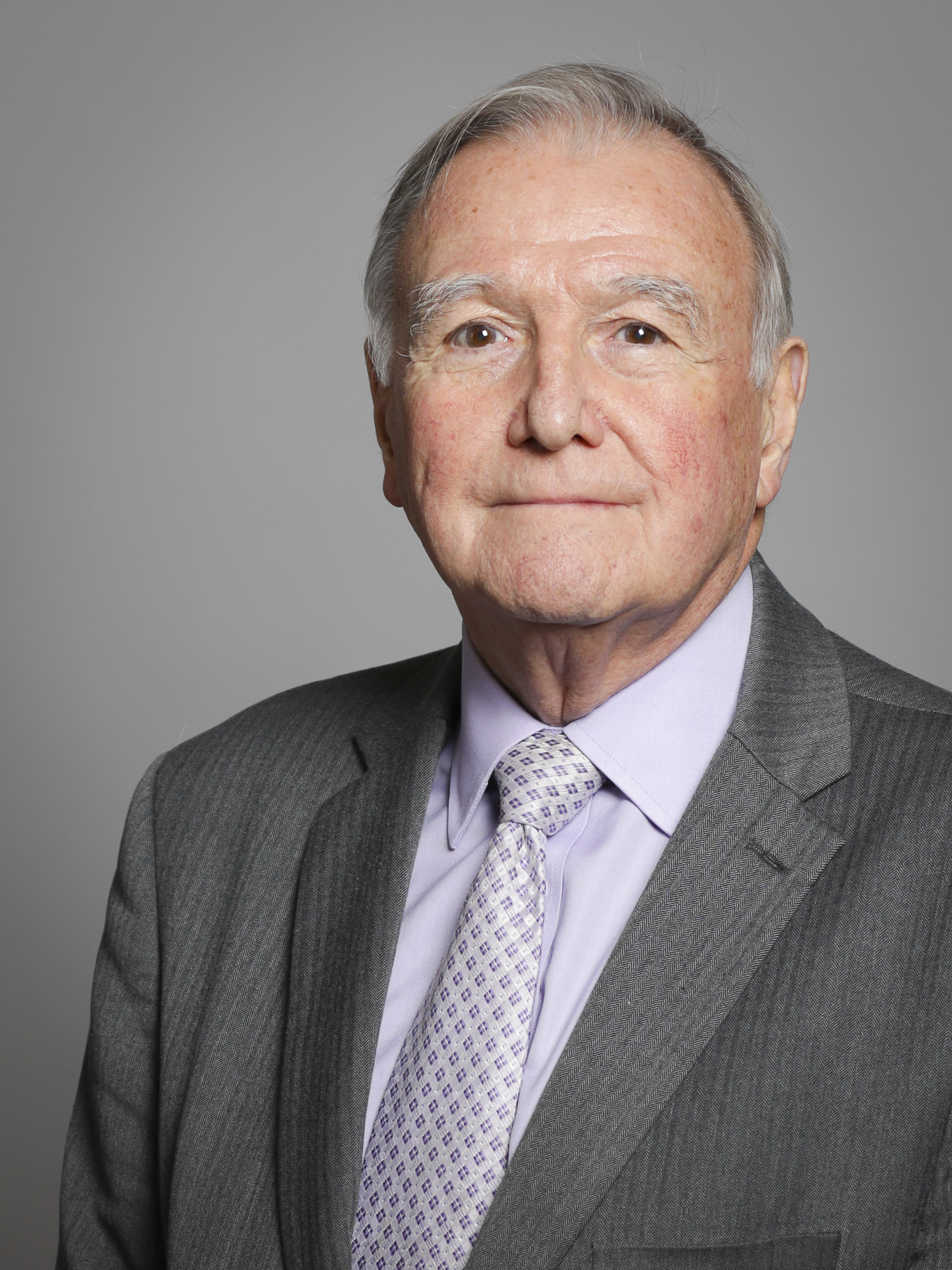 Official portrait of Lord Bruce of Bennachie 3×4 portrait of Lord Bruce of Bennachie